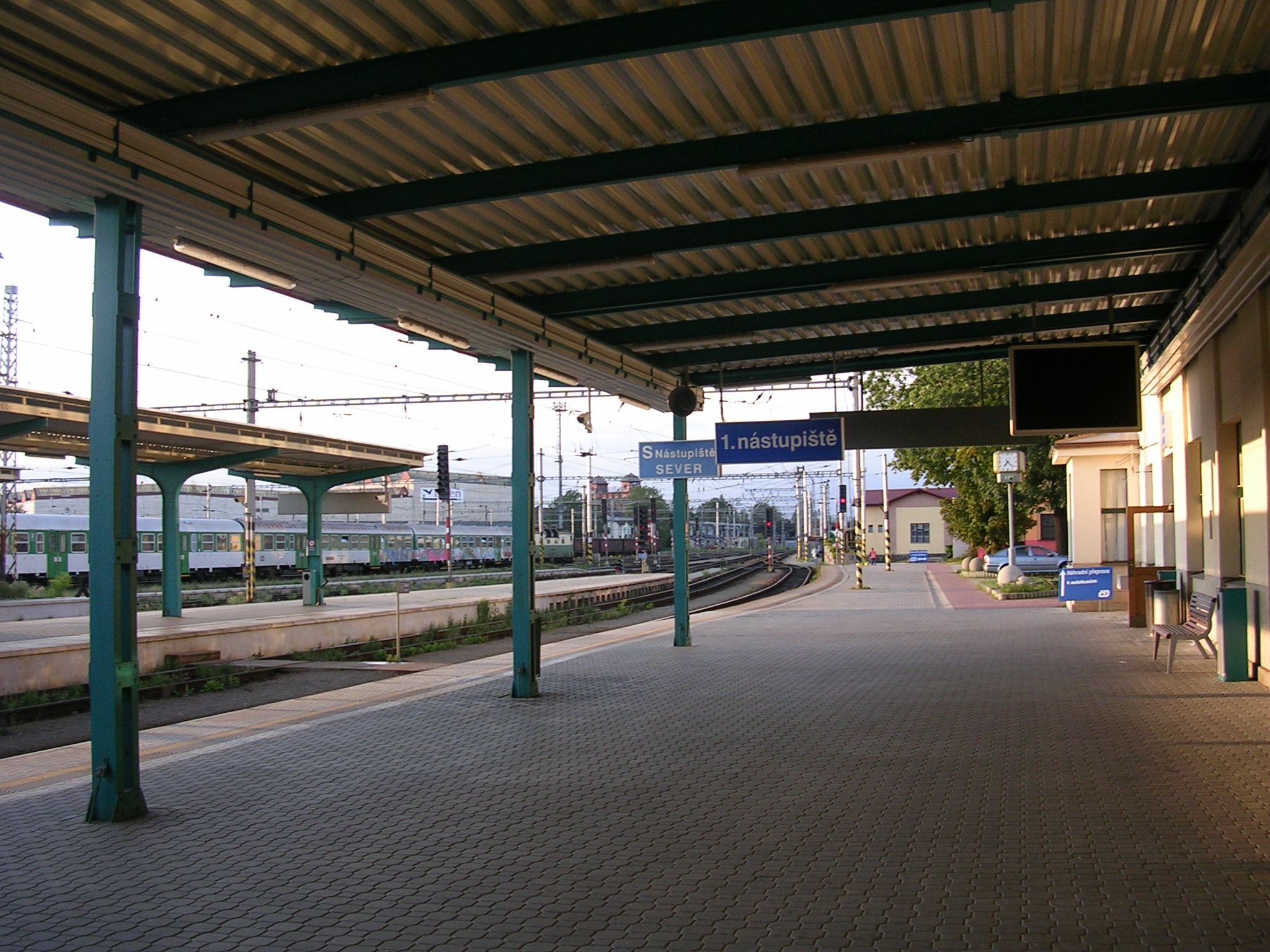 Hradec Králové, the Czech Republic. Main train station. - Google Maps - Google Earth